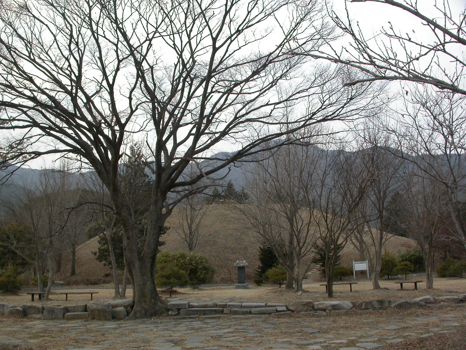 Tomb of Prince Namyeongun